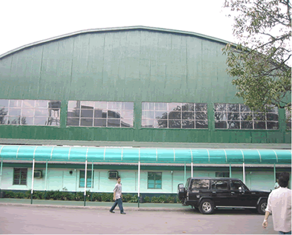 Gymnasium at University of the East Caloocan, Metro Manila, Philippines